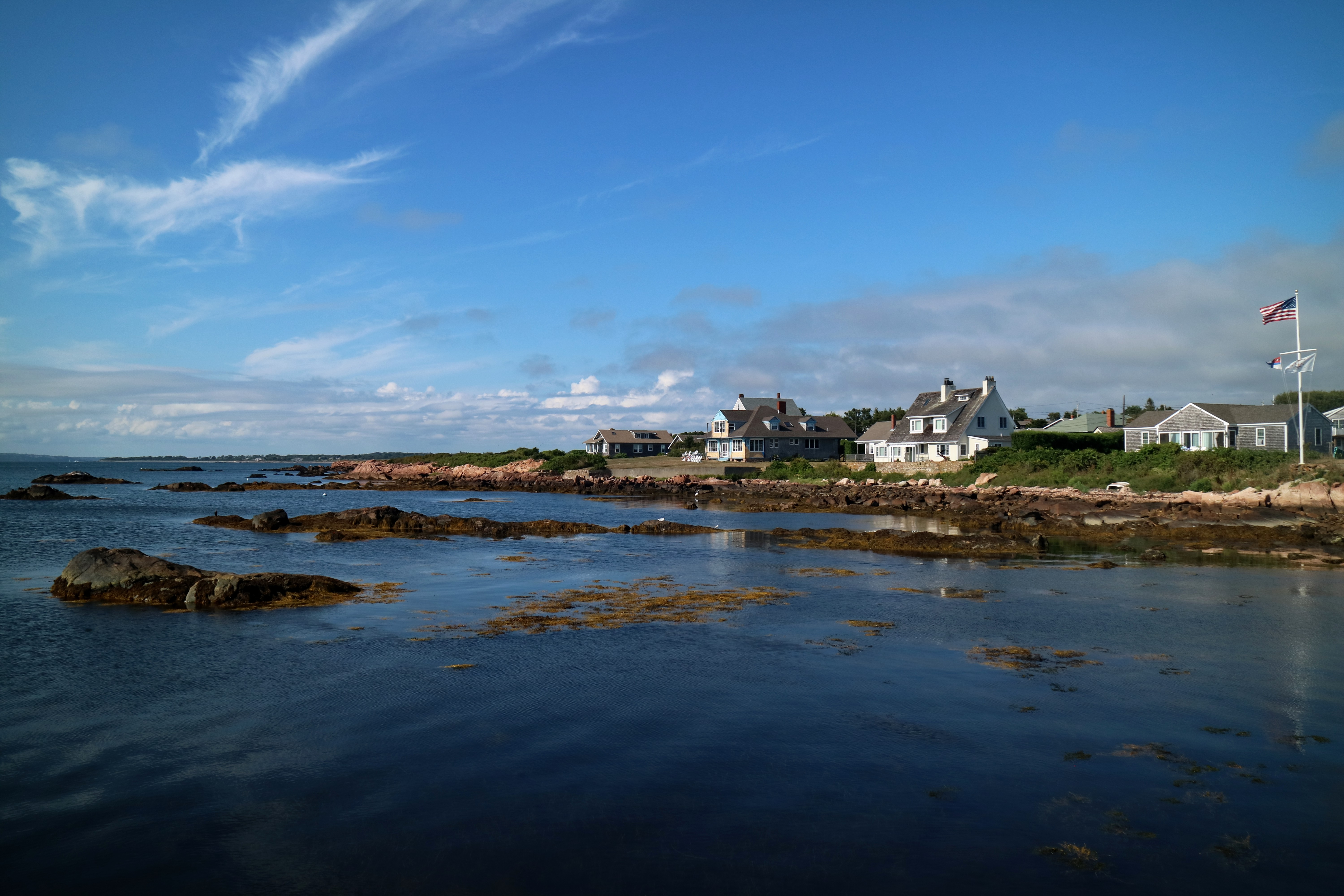 View from Sakonnet Harbor, Little Compton, RI